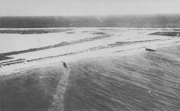 HIJMS Patrol Boat No.32 (left) and Patrol Boat No.33 (right)